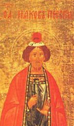 James Intercisus (detail of Russian icon)